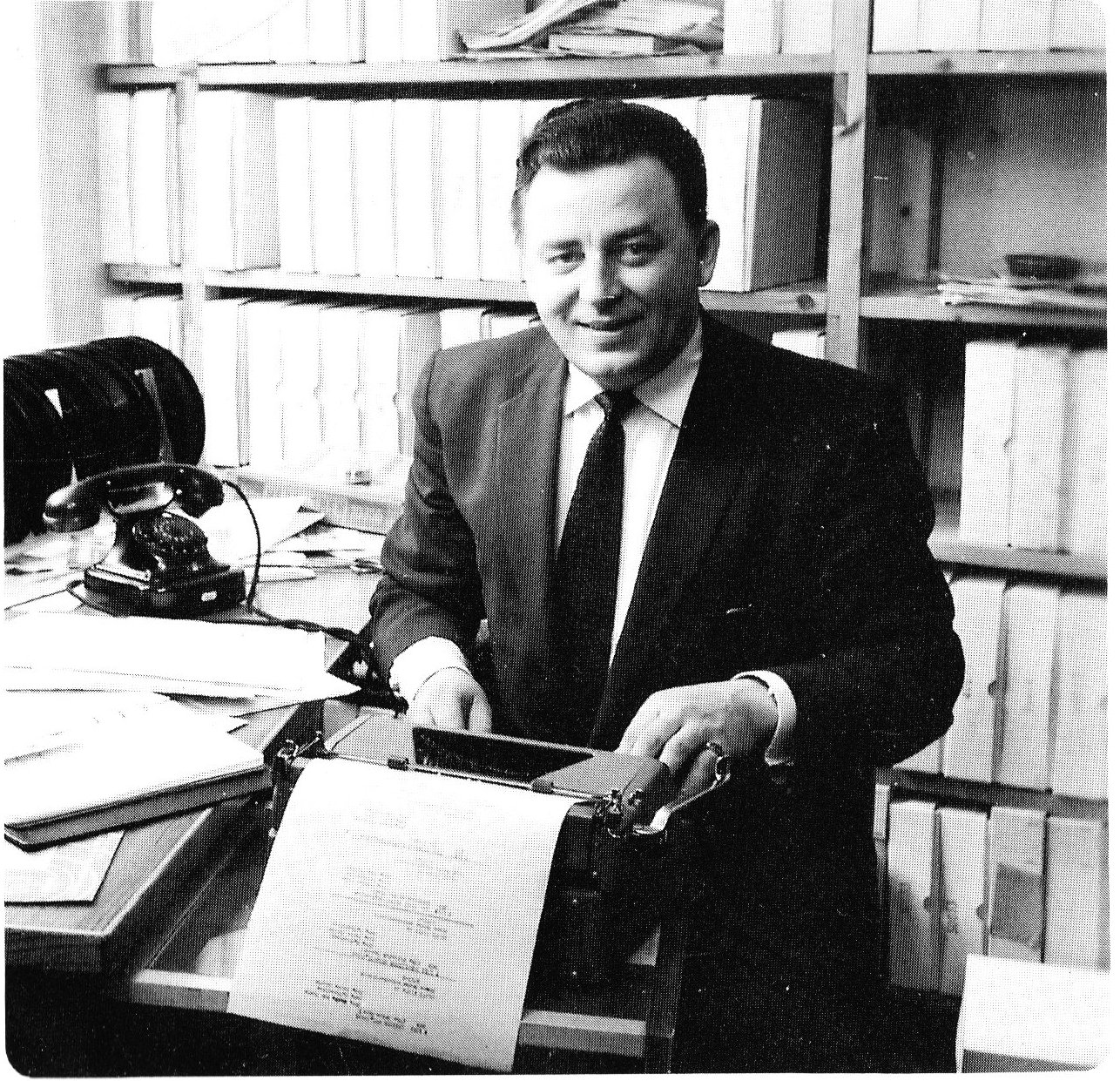 Olavi Virta